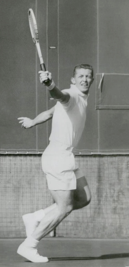 1960 Press Photo Tony Trabert tennis champion Ohio